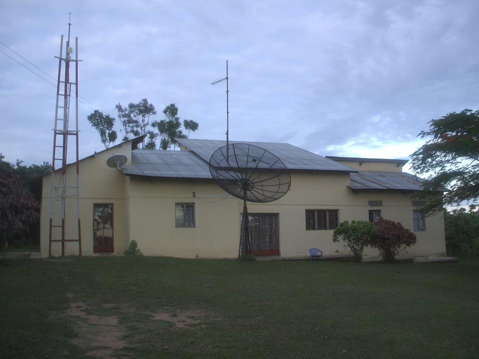 BTN and Nile FM Studios — in the Arua District, Northern Region of Uganda.